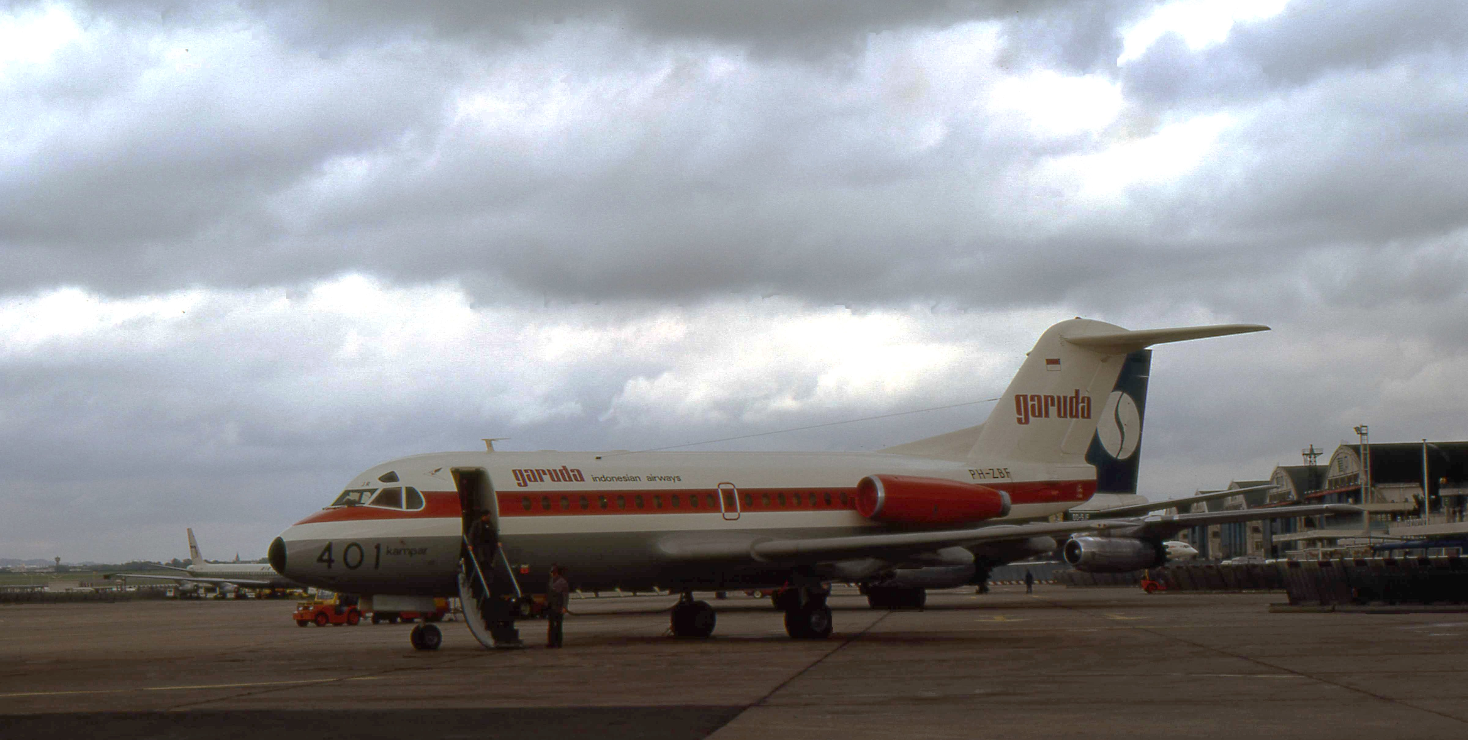 France, Paris Air Show 1973. The Netherlands jet airliner Fokker F28 Fellowship with the livery of Garuda Indonesia shown at the static display.